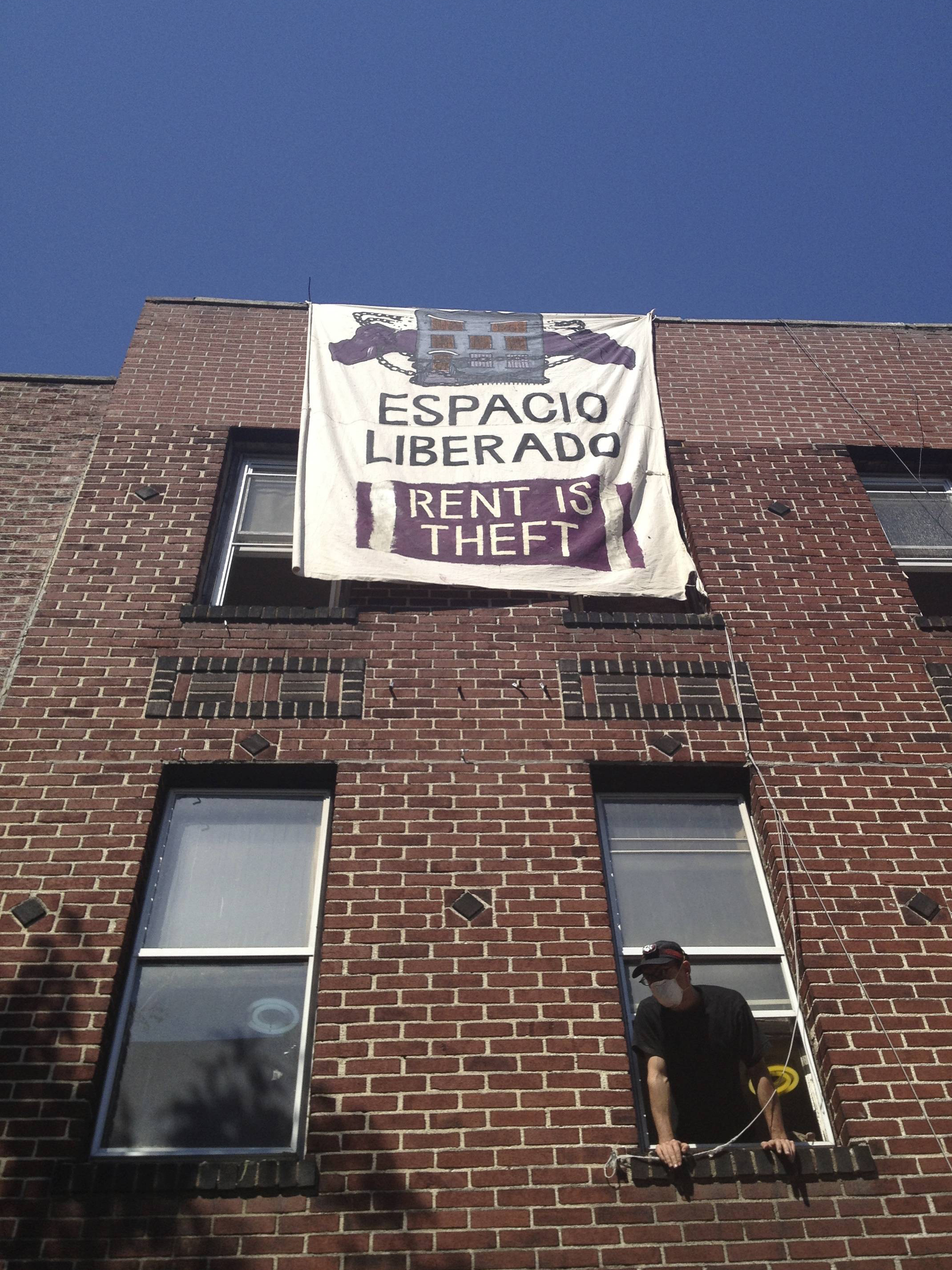 A freegan in a squat in New York City